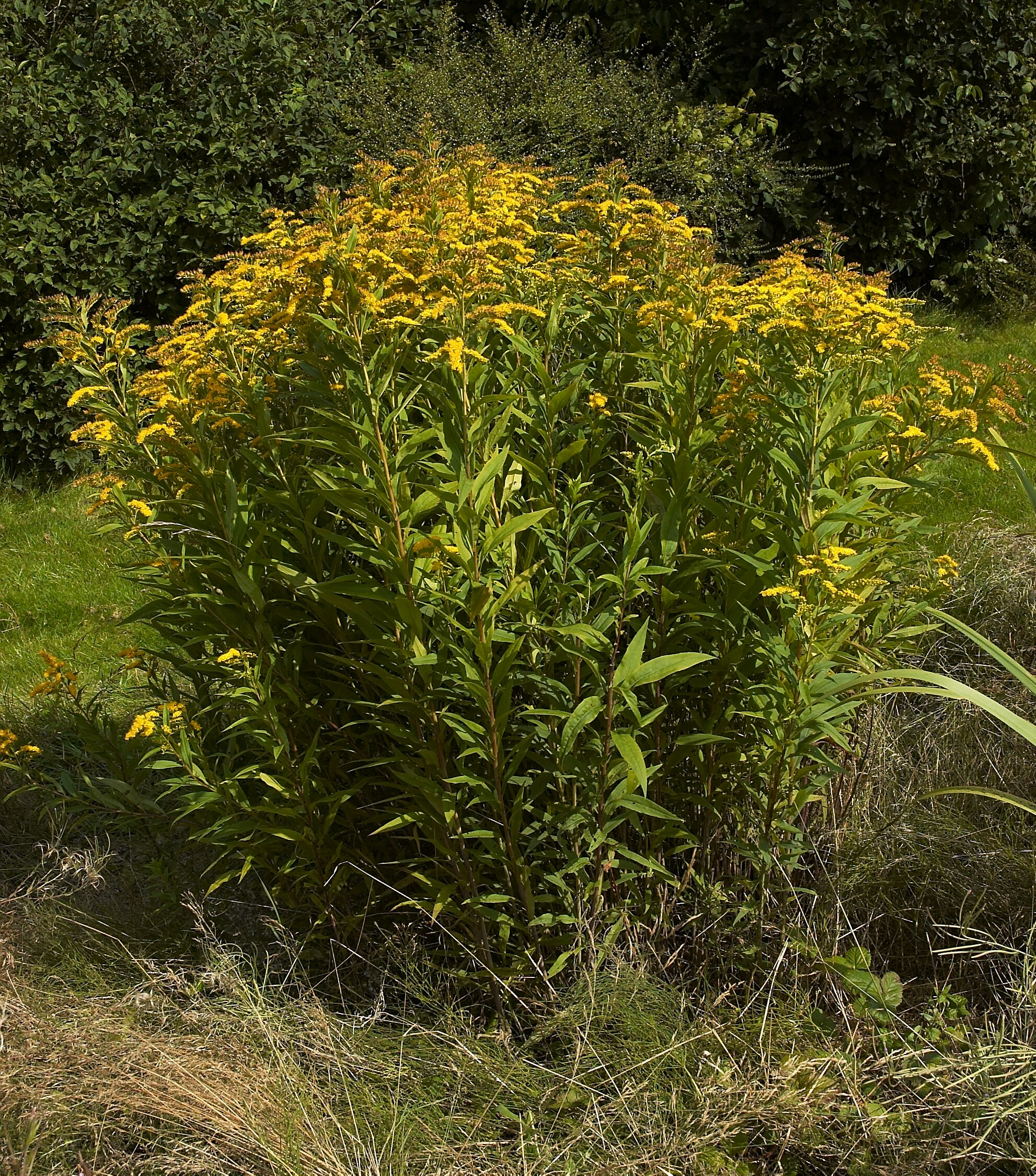 Solidago gigantea. This photo has been taken in Belgium. Other photos of the same plant